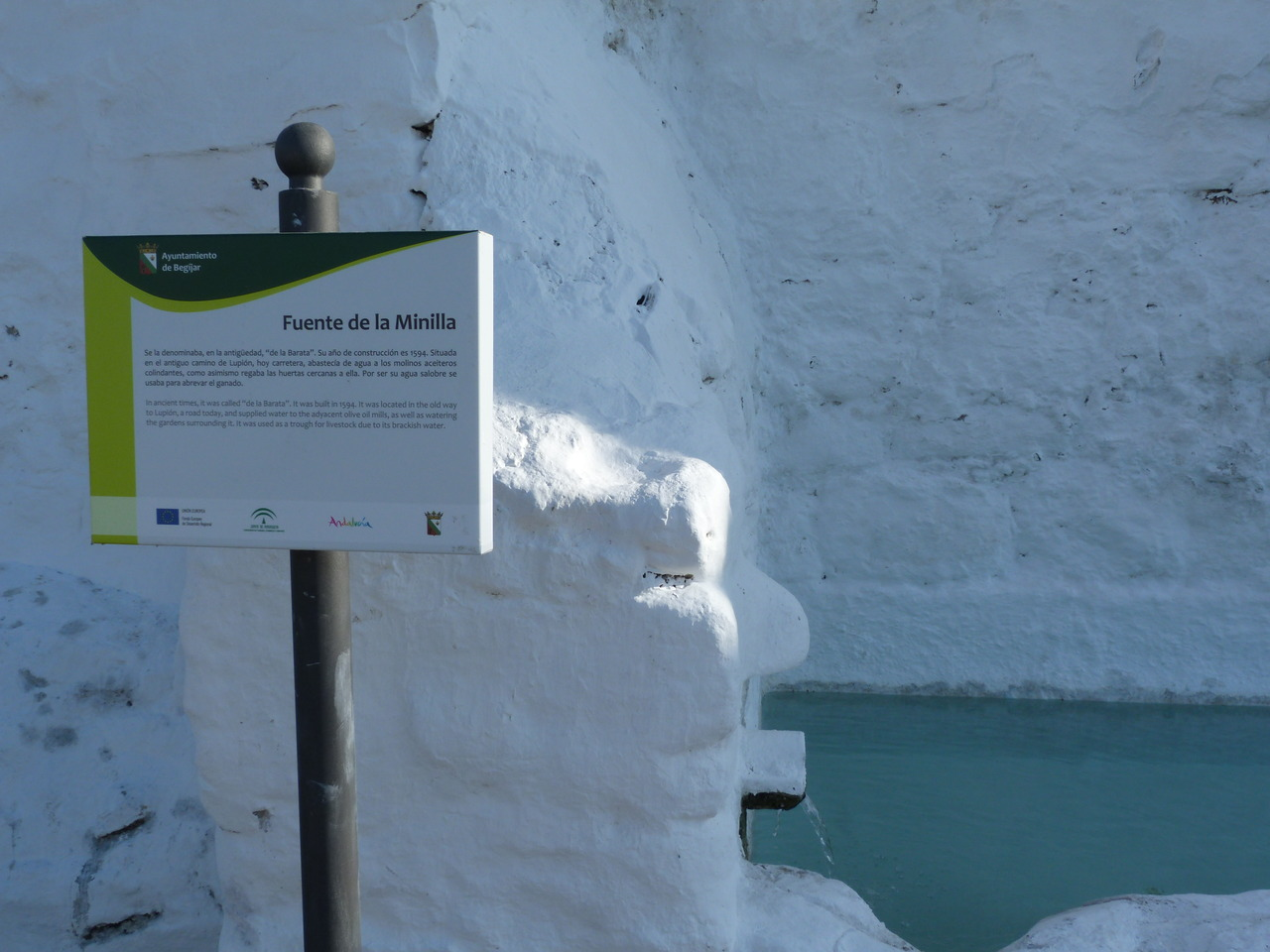 Fuente